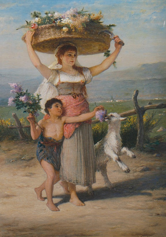 The Flower Girl